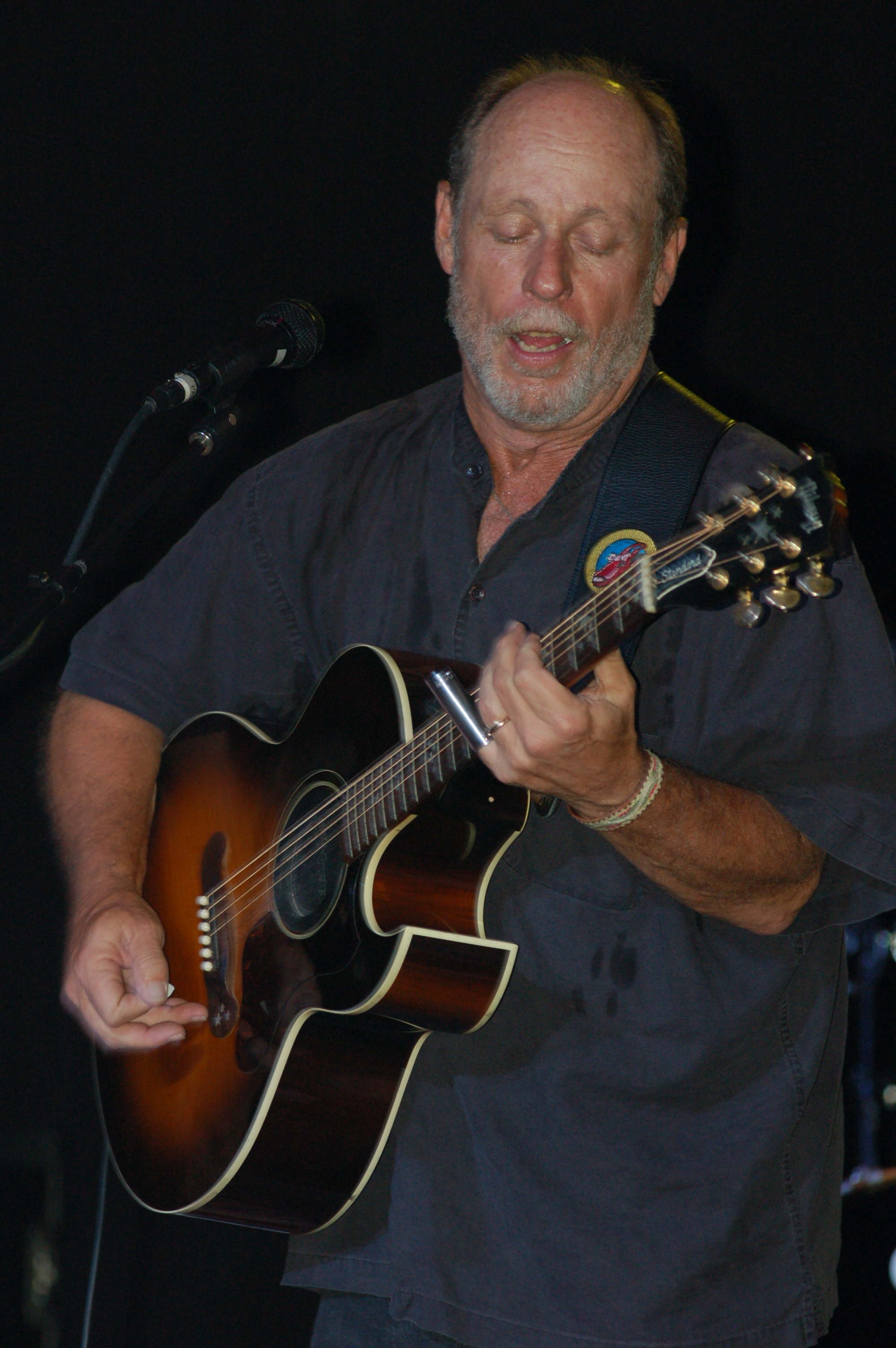 Paul Barrere (2009) has been a founding member, with the alternative rock and jam band, Little Feat for nearly 40 years